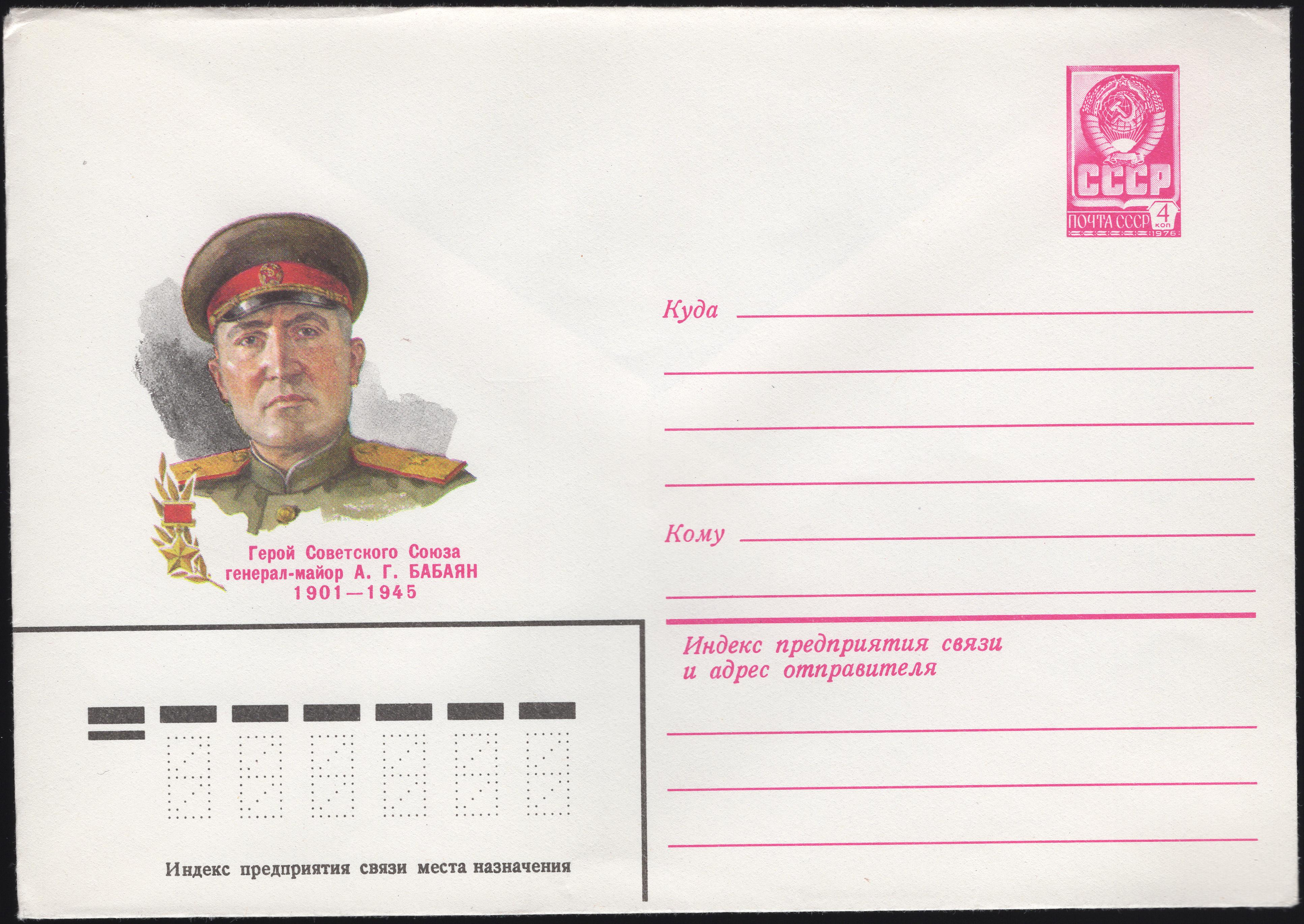 Hero of the Soviet Union Major general Hmayak Babayan. 1922-1945. Series: Heroes of the Soviet Union. Artist Peter Bendel.